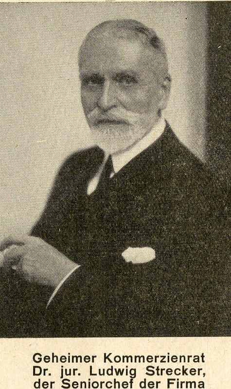 Dr. Ludwig Strecker senior, (16 March 1853 – 19 December 1943) attorney and businessman, owner of Schott Music.